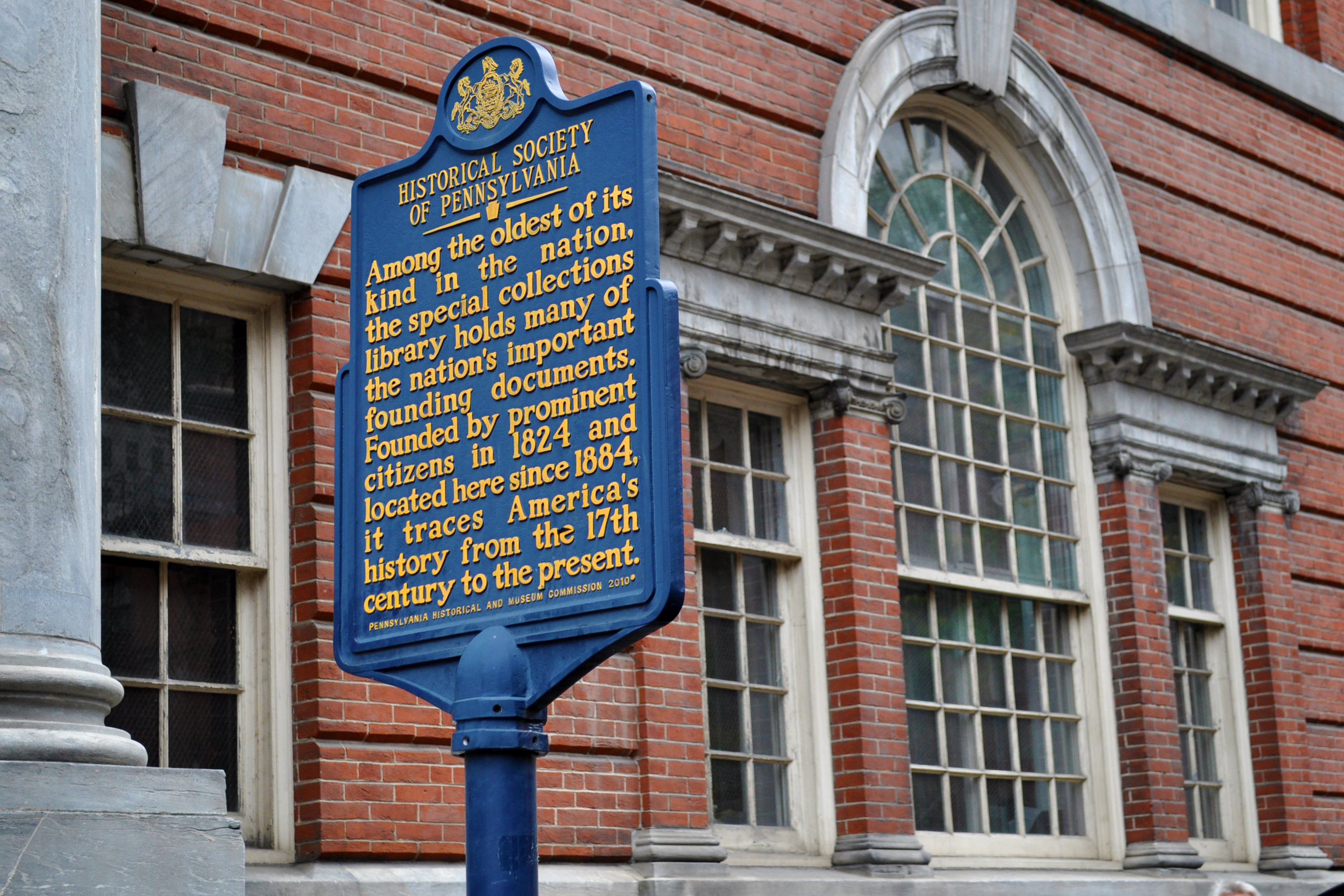 Historical Society of Pennsylvania. Among the oldest of its kind in the nation, the special collections library holds many of the nation's important founding documents. Founded by prominent citizens in 1824 and located here since 1884, it traces America's history from the 17th century to the present. (Historical Marker at 1300 Locust St. Philadelphia PA - Pennsylvania Historical and Museum Commission 2010)